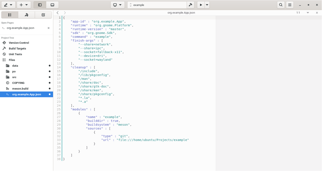 GNOME Builder 3.32.2 with dark mode enabled